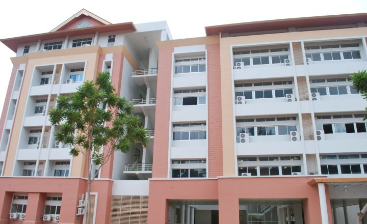 scitech_pnu